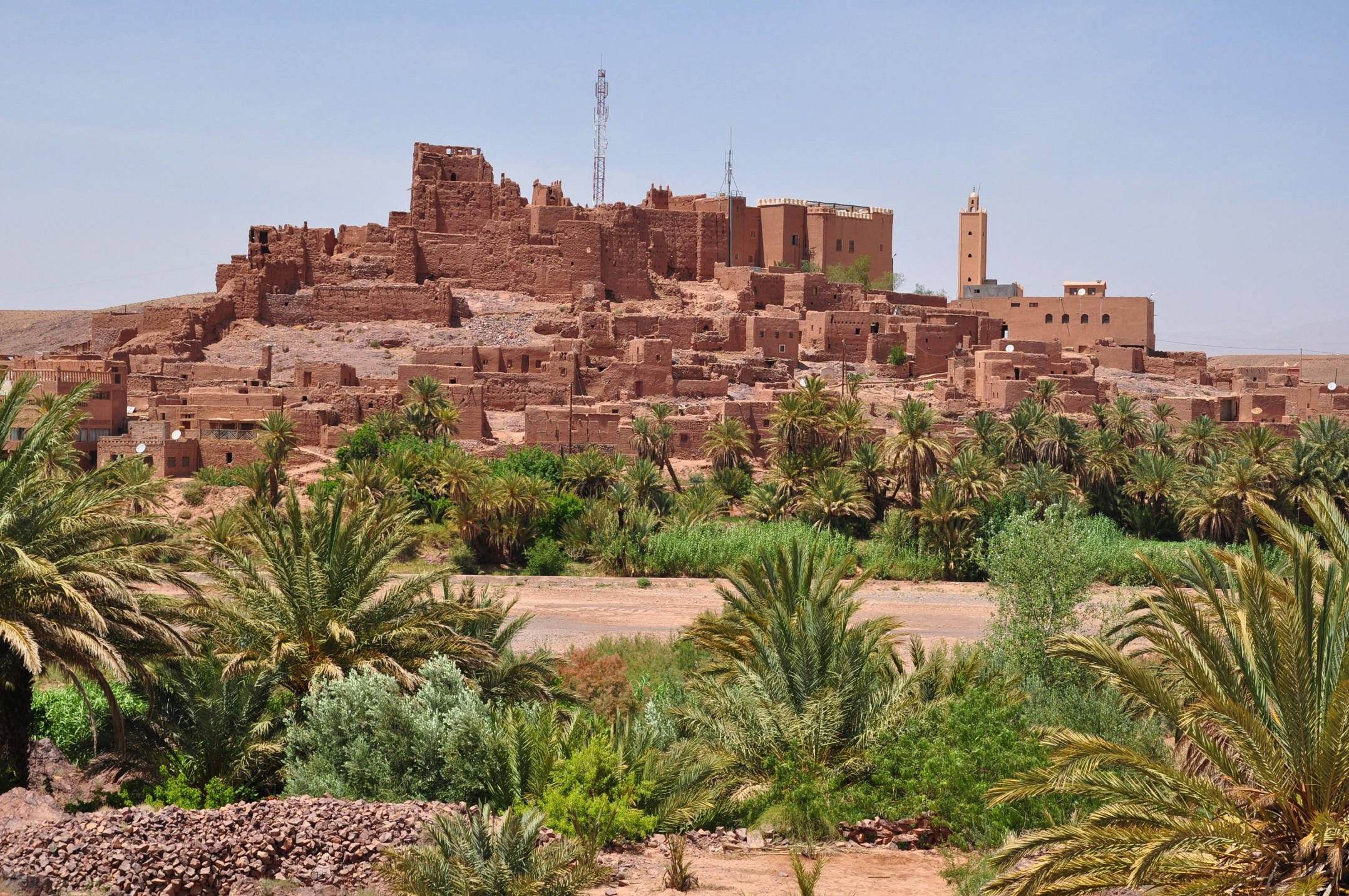 Kasbah Tifoultoute, 8 km west of Ouarzazate, southern Morocco.